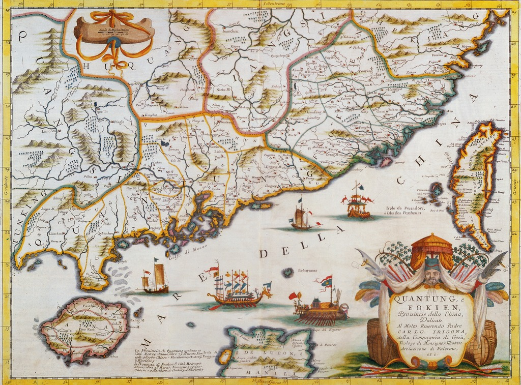 Quantung, e Fokien, prouincie della China [cartographic material] / dedicate al Molto Reuerendo Padre Carlo Trigona, della Compagnia di Gesù, Teologo di Monsignor Illustriss: Arciuescouo di Palermo etc